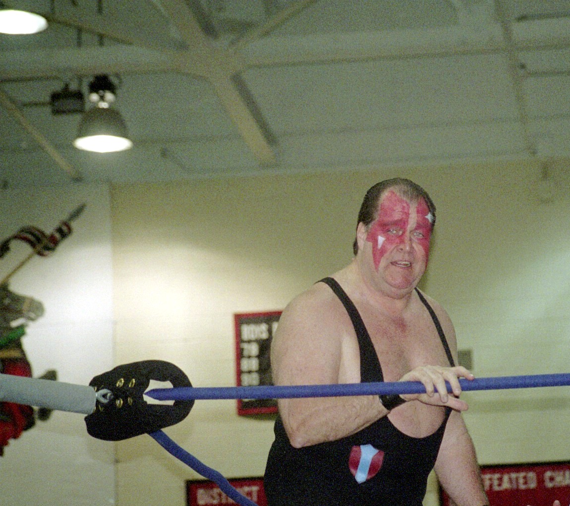 Wrestling legend Bill Eadie before his match vs. Nikolai Volkoff in Franklin, PA. My batteries for my flash died so I pushed my ISO 800 film to 3200. The results are pretty grainy.